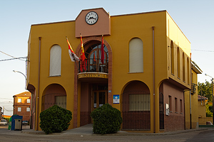 Regueras de Arriba - Casa Consistorial